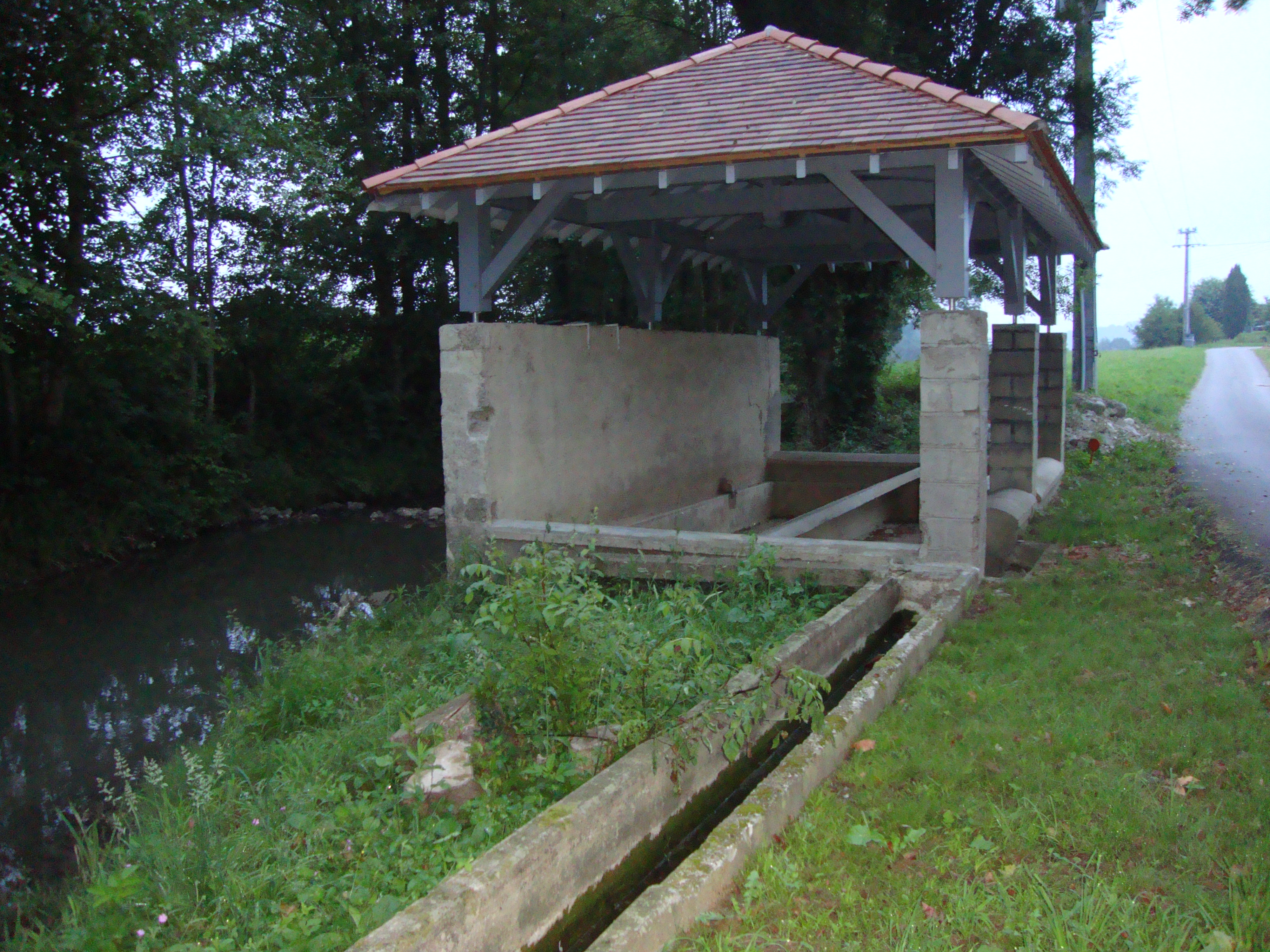 Charitte-de-Bas (Pyr-Atl, Fr) wash house